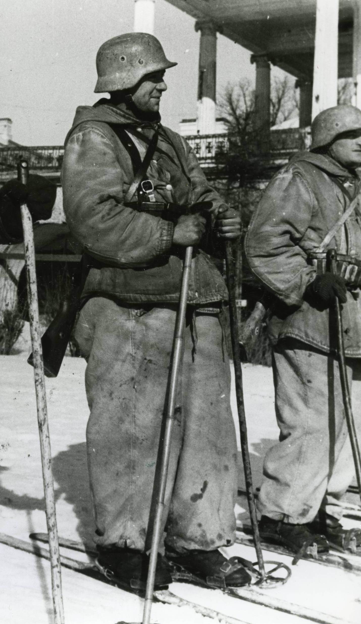 Soldiers about to embark on a mission (1942, Eastern Front, WWII)